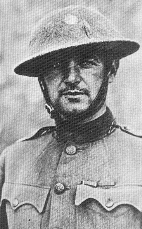 Wild Bill Donovan in France with the Fighting 69th